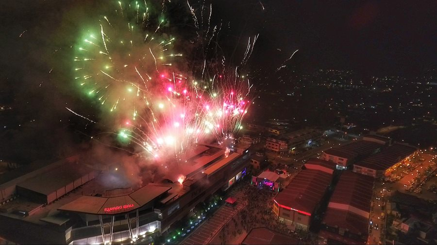 Fireworks illuminate the downtown Kluang skyline during the fourth annual GET UP! Kluang.